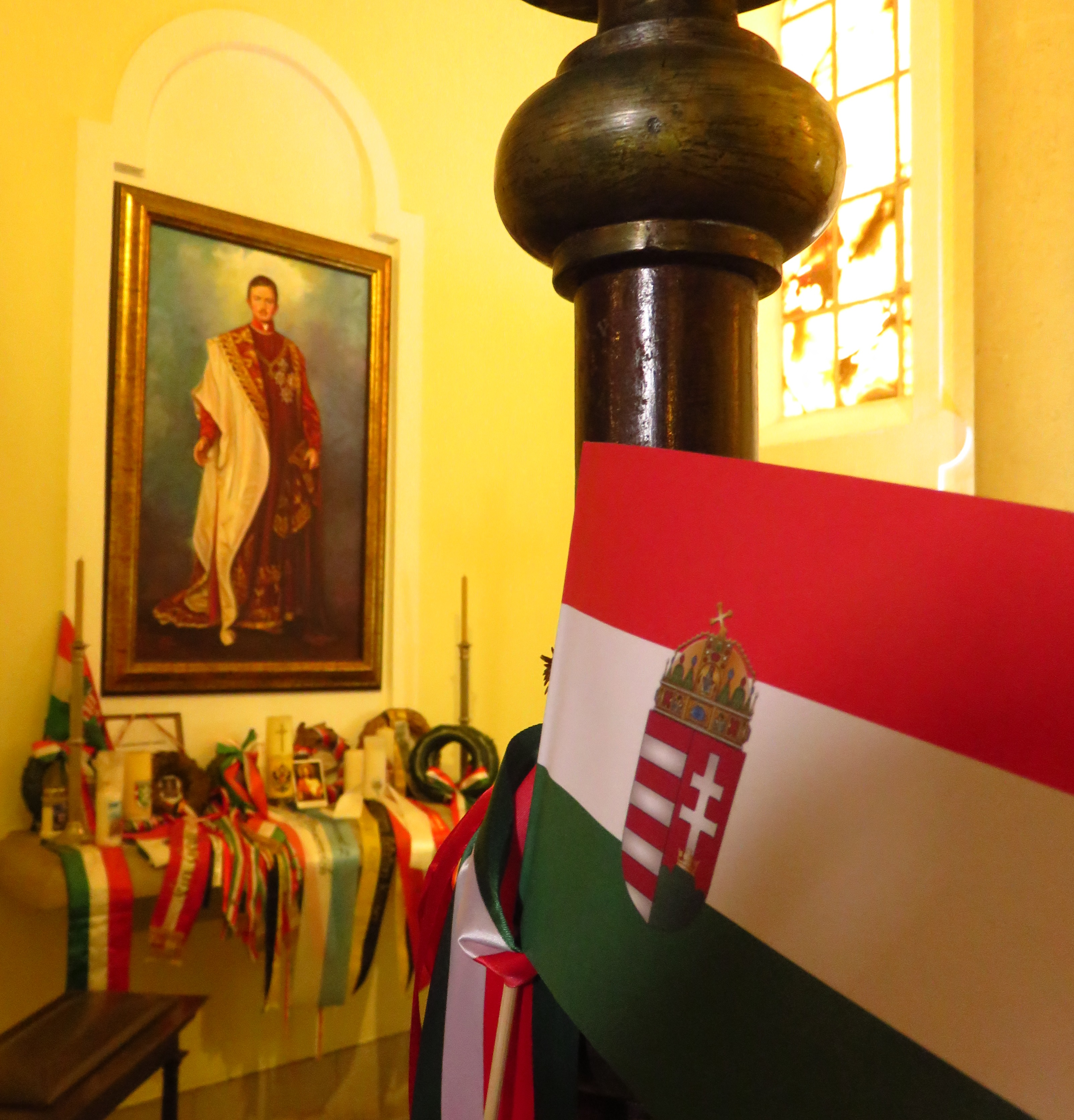 The painting represents Karl I of Austria, king Charles IV of Hungary, and hangs in the Church of Our Lady of Monte, Madeira. In the front hangs a Hungarian flag. Charles was king of Hungary at the end of World War I, but was then forced into exile in Switzerland. He tried to regain the Hungarian throne twice after that in 1921, but was then forced into exile on Madeira where he spent the short rest of his life. He died in exile in 1922.